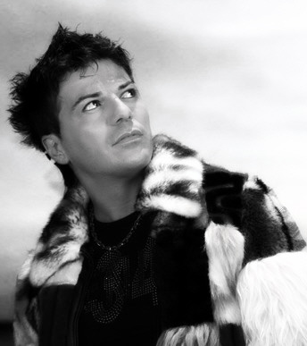 Dom Capuano Official 2006